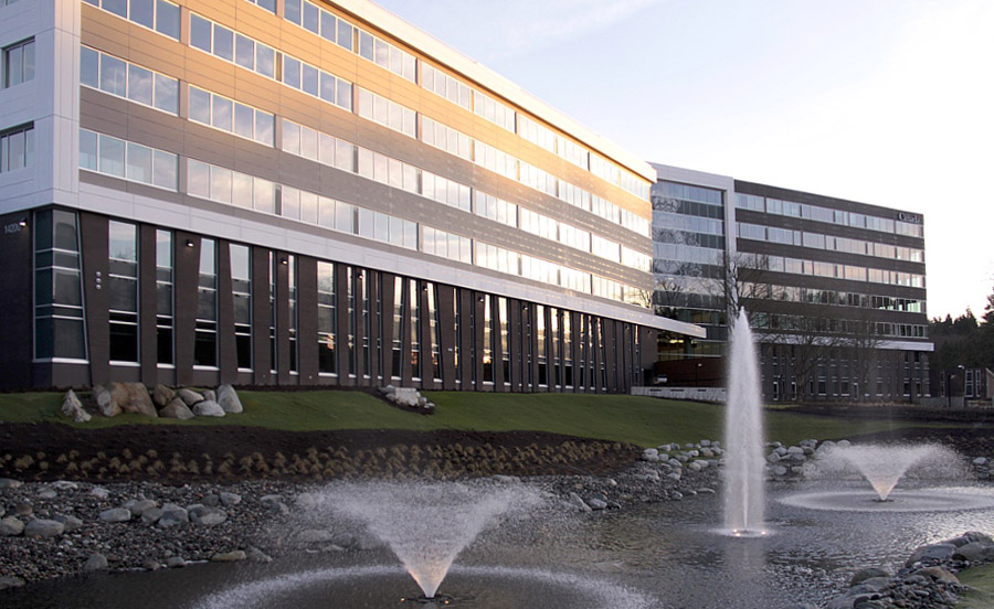 RCMP Division E Headquarters in Surrey, B. C.